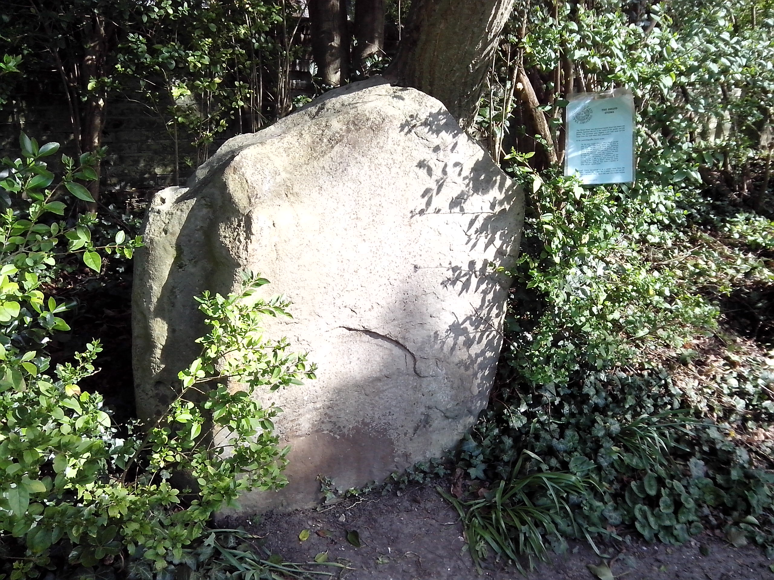 Sarsen Stone, also known as "The Druid Stone", discovered by workmen under the lawn of Thomas Hardy's house in Dorchester in 1891. Now known to have been part of the Neolithic Flagstones Enclosure which lies beneath the grounds of the house.